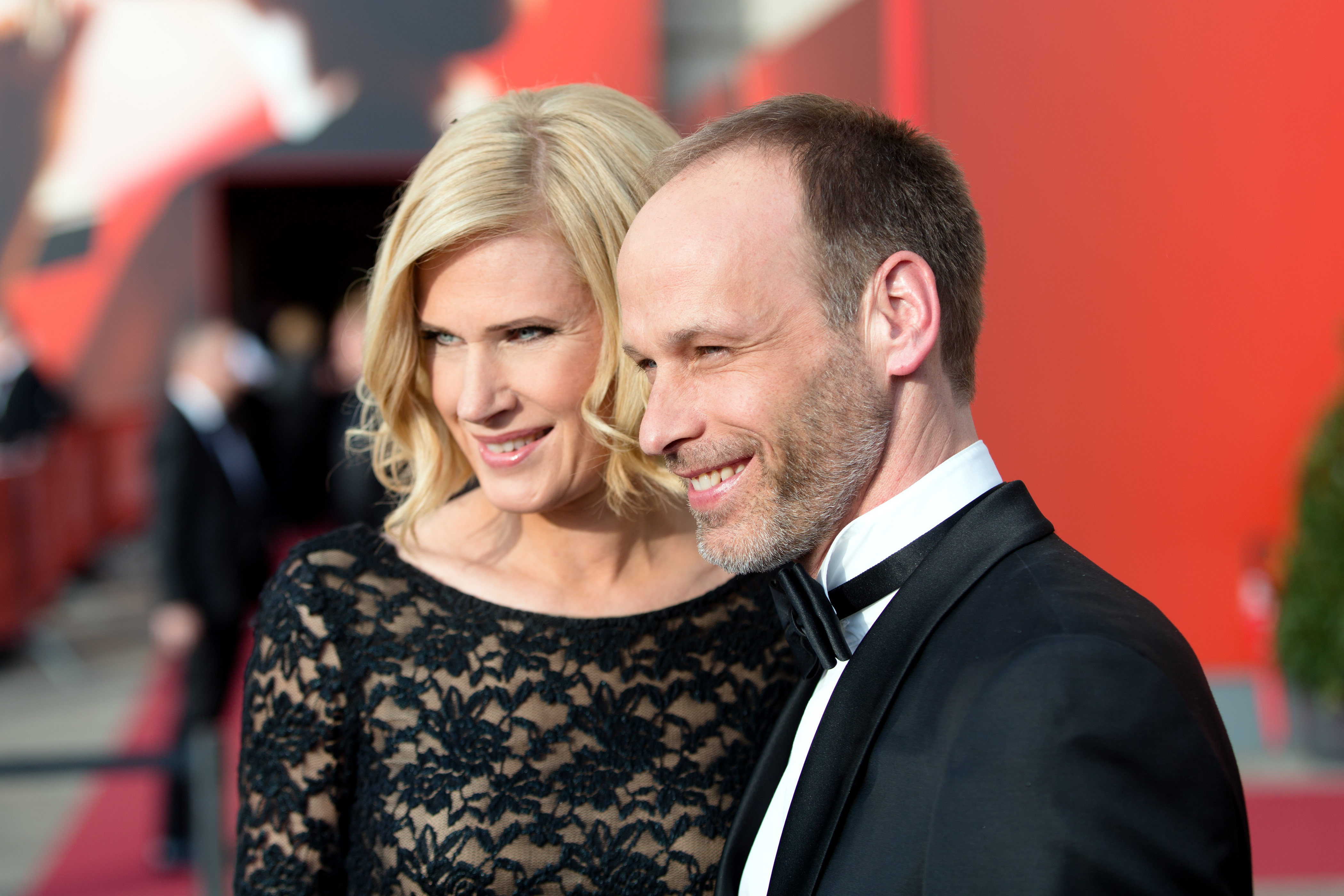 Sylvia Saringer and Marcus Wadsak on the red carpet of the Romy TV awards 2016 at Hofburg Palace in Vienna, Austria.